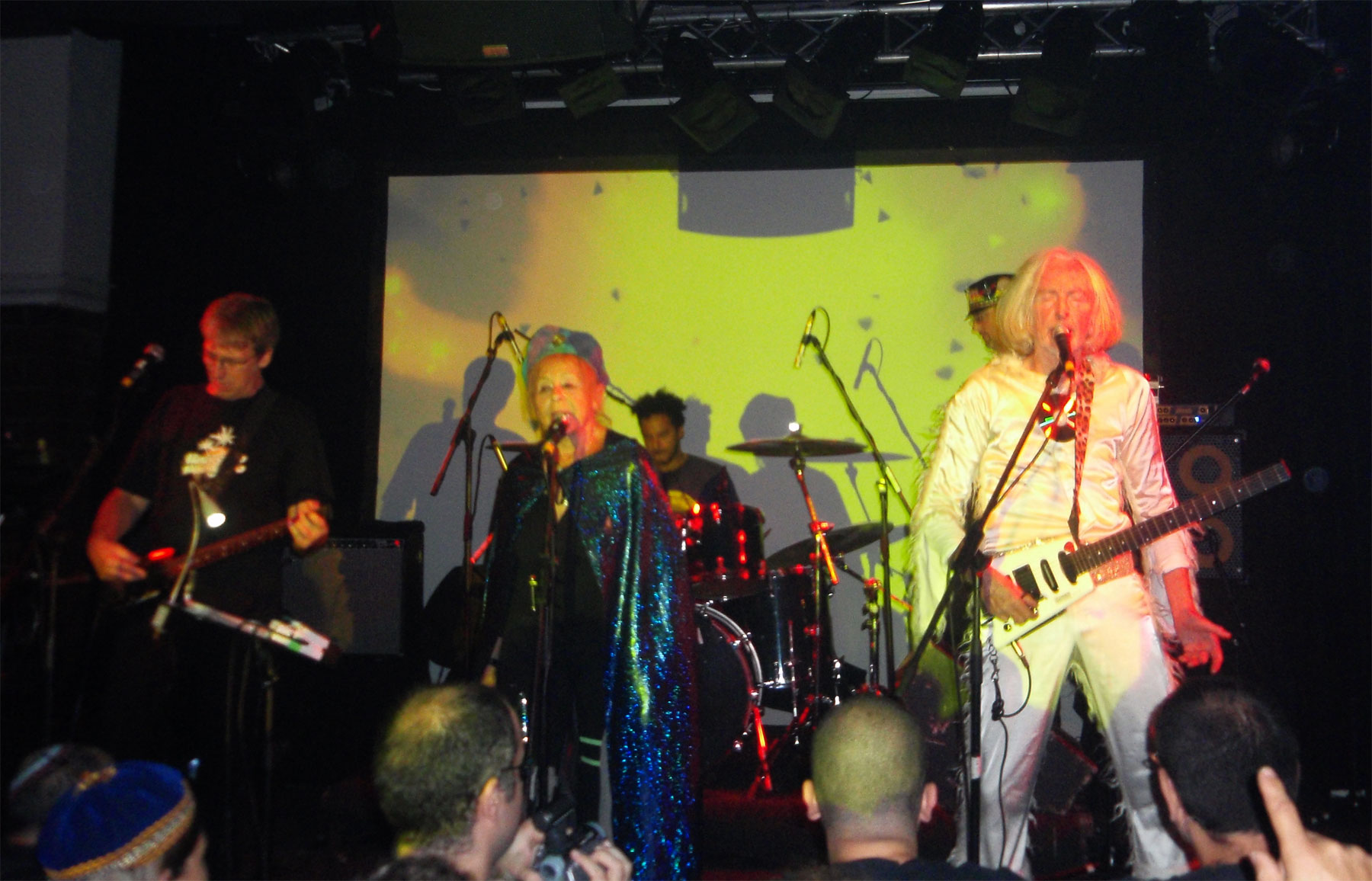 Gong, playing live in the Zappa club in Tel-Aviv. The 2032 tour.